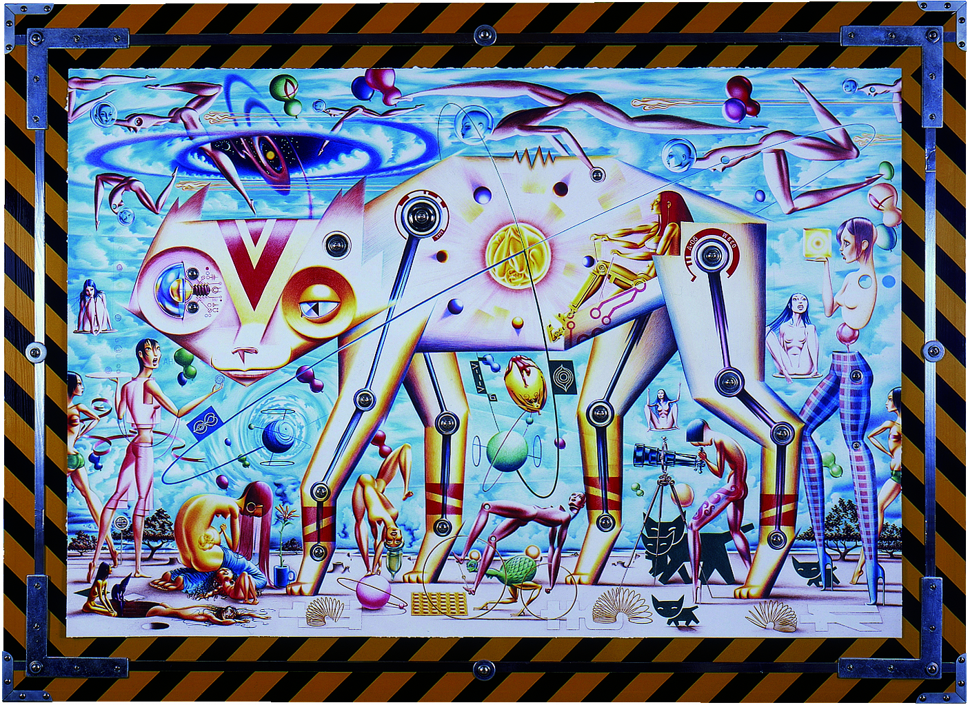 Large-scale ballpoint "Penting" by Lennie Mace. Actual hardware (visible at various points within the cat's body) attach the paper to the board onto which it's mounted. Frame also custom-made by Lennie Mace.